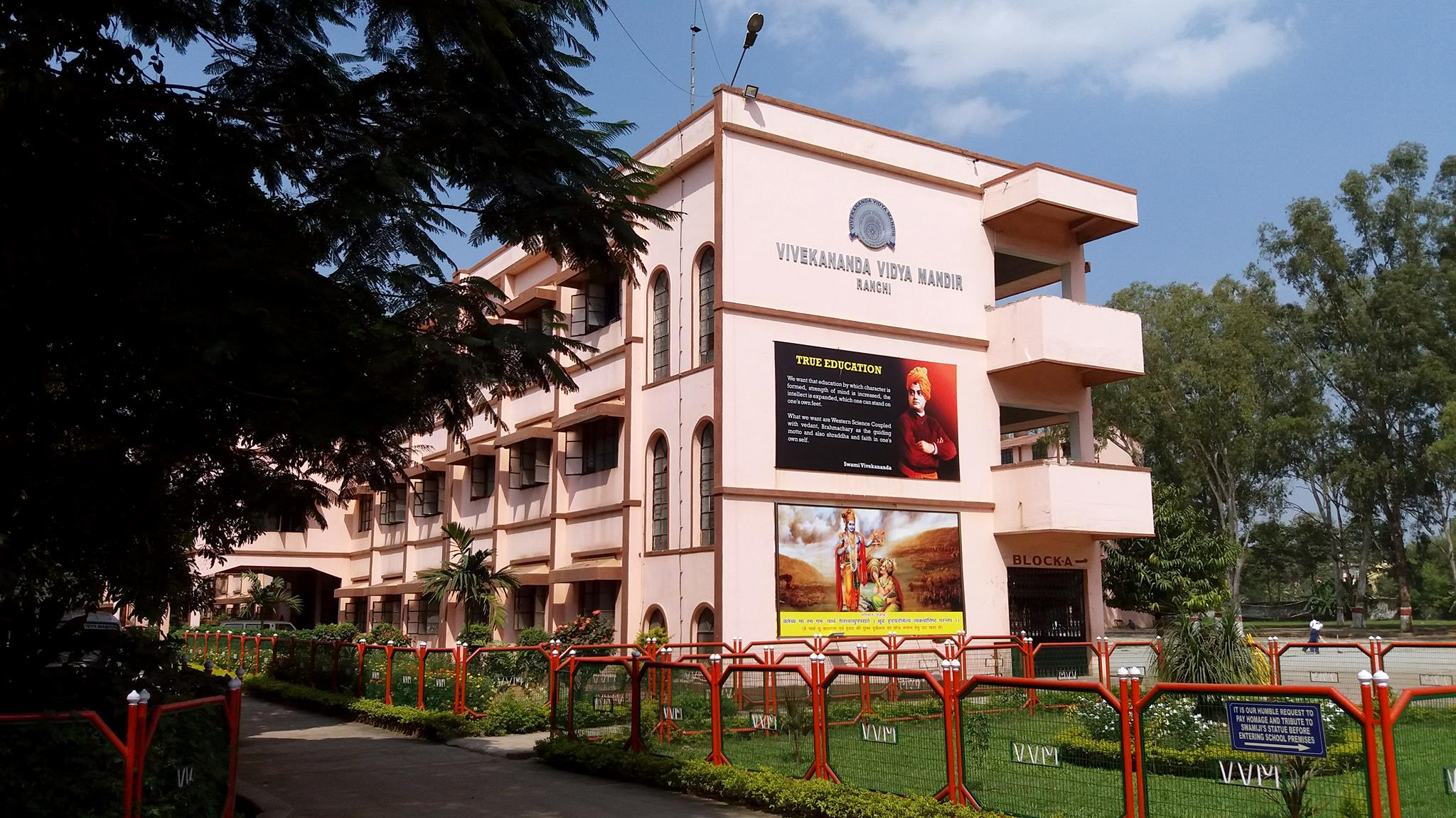 Vivekanada Vidya Mandir